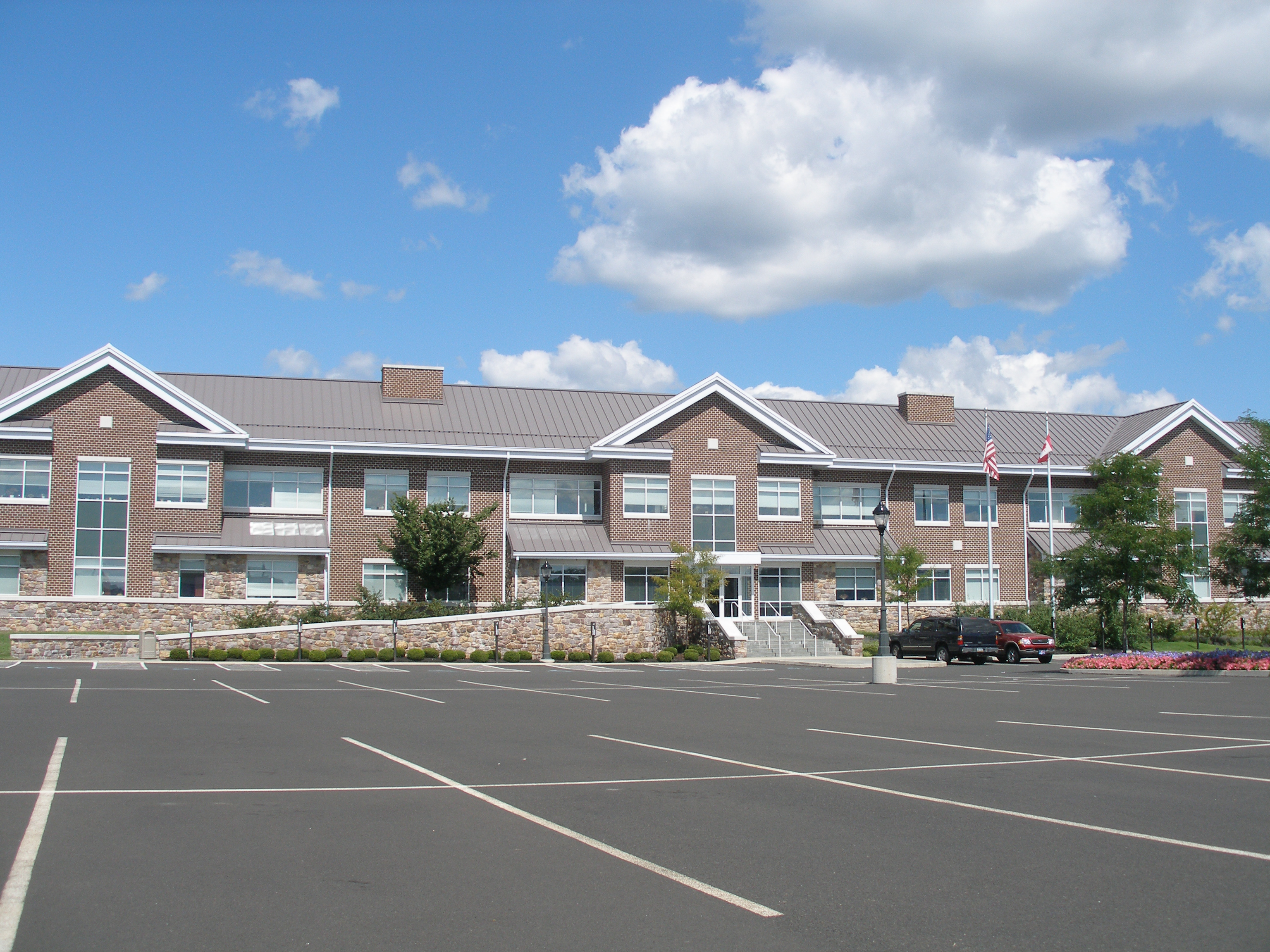 The headquarters of the Law School Admission Council at 662 Penn Street in Newtown.